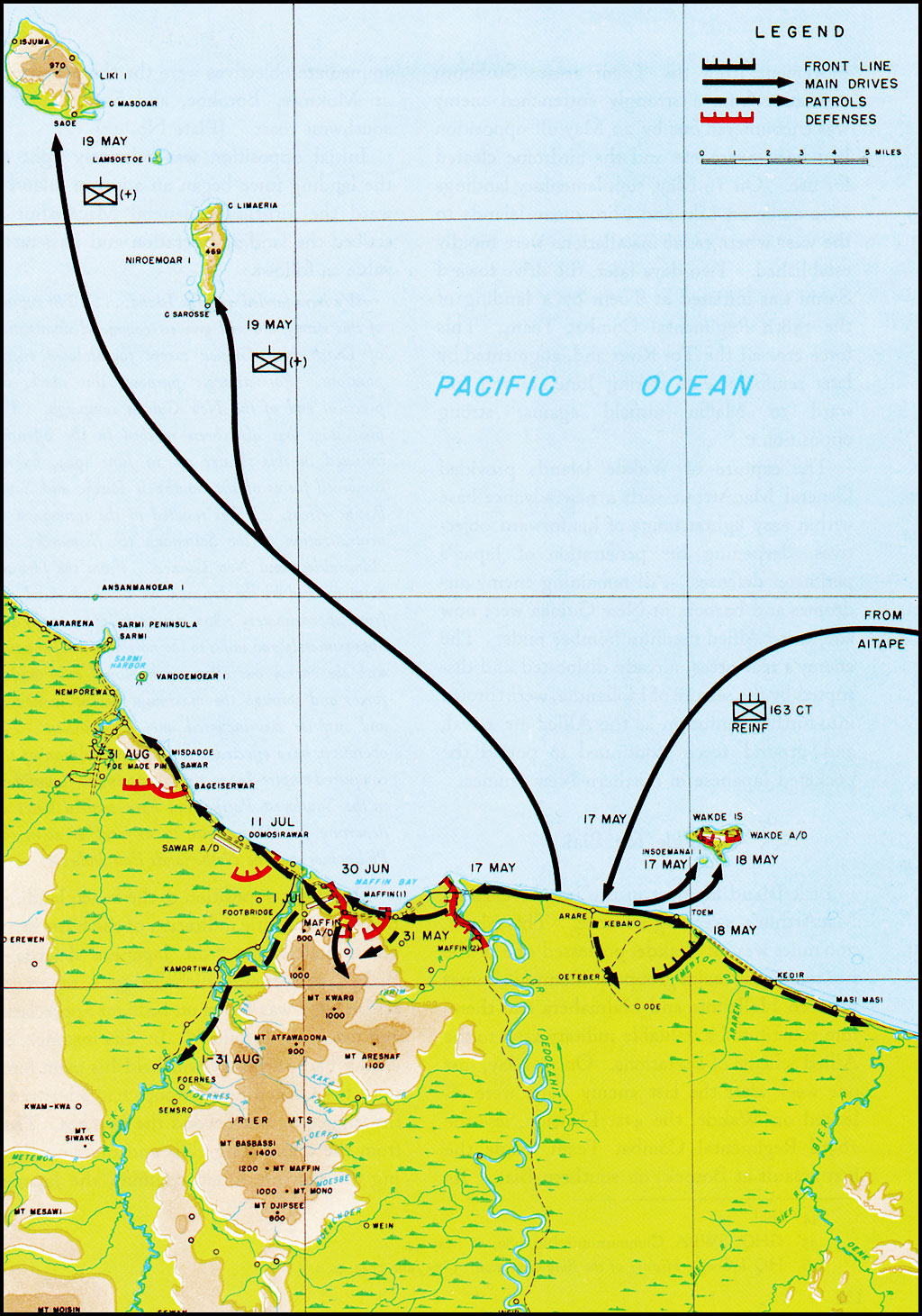 Wakde-Sarmi Operation, 17 May-2 September 1944